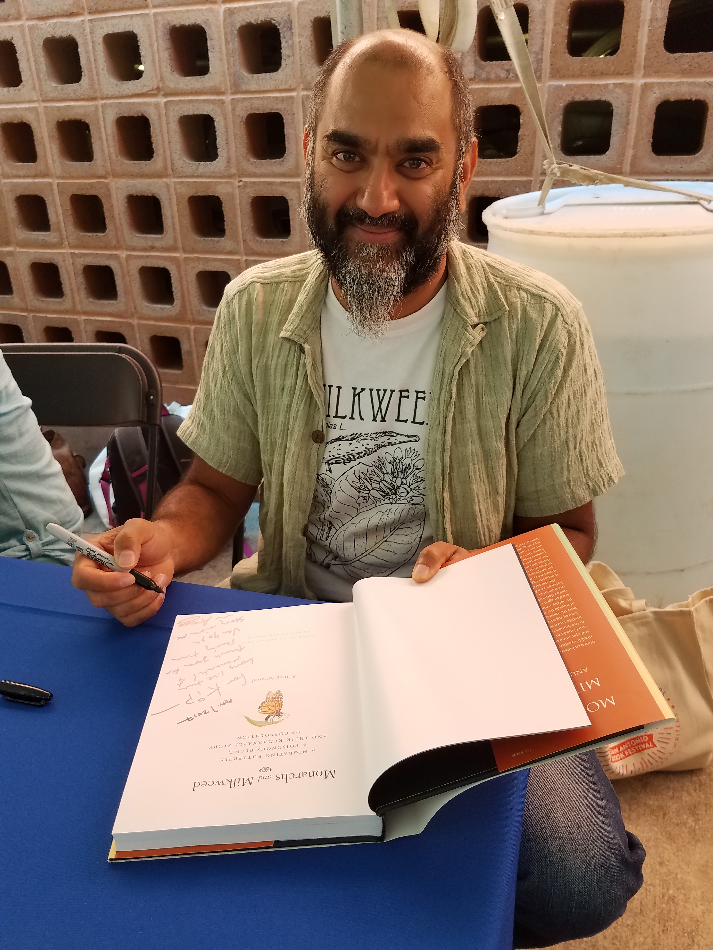 Anurag Agrawal signs copies of his book, Milkweed and Monarchs, at the April 2017 San Antonio Book Festival. Photo courtesy San Antonio Book Festival.